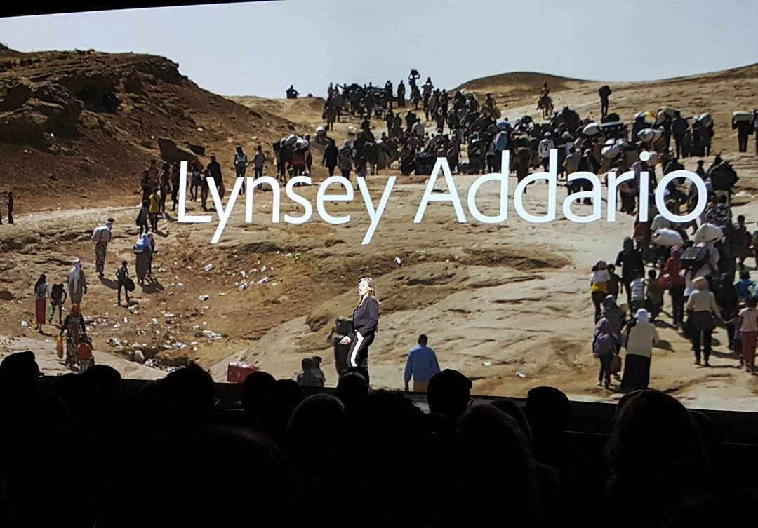 The amazing war photographer Lynsey Addario #adobemax @adobemax #TeamMindblow